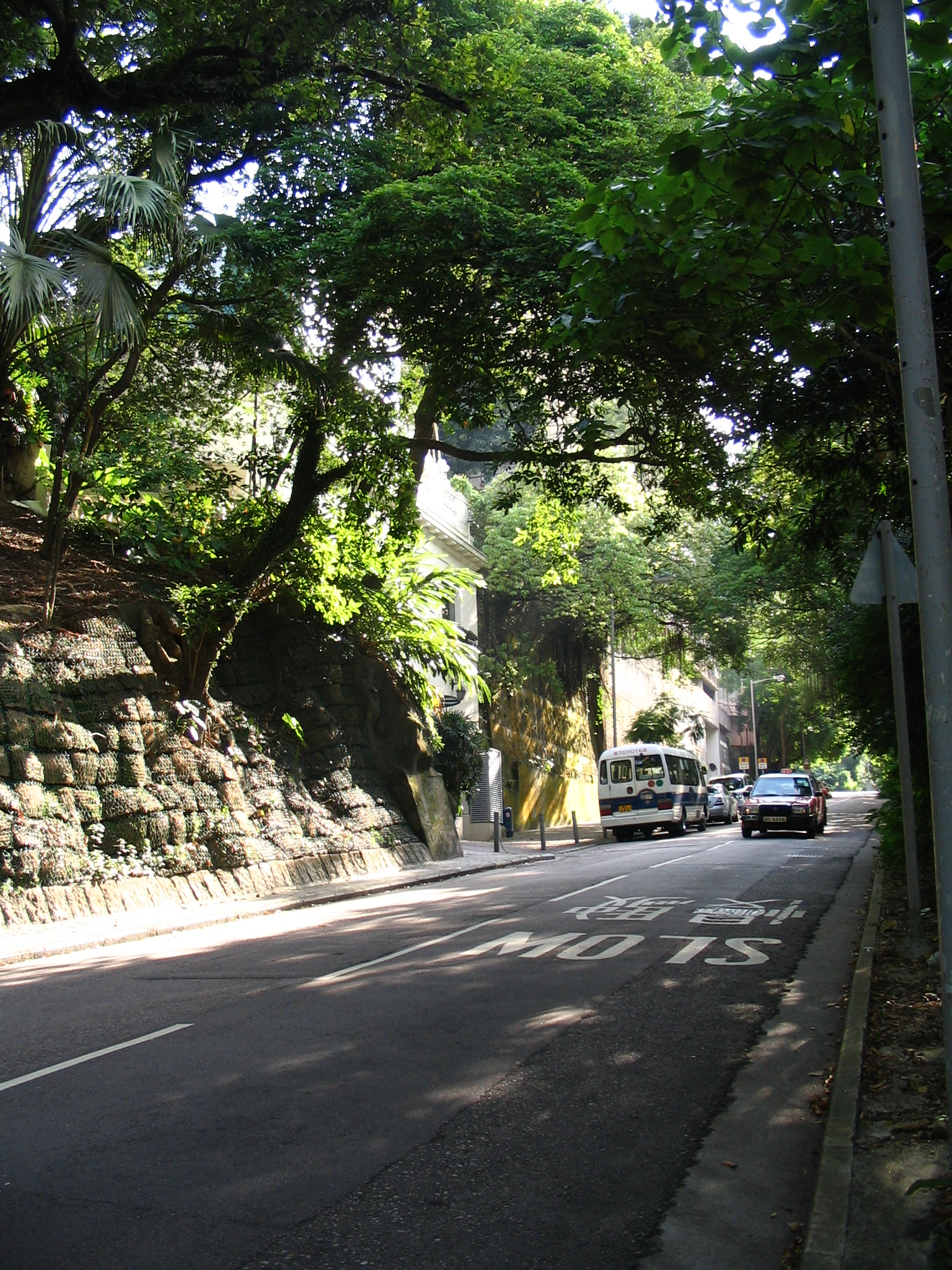 Photo of Kotewall Road